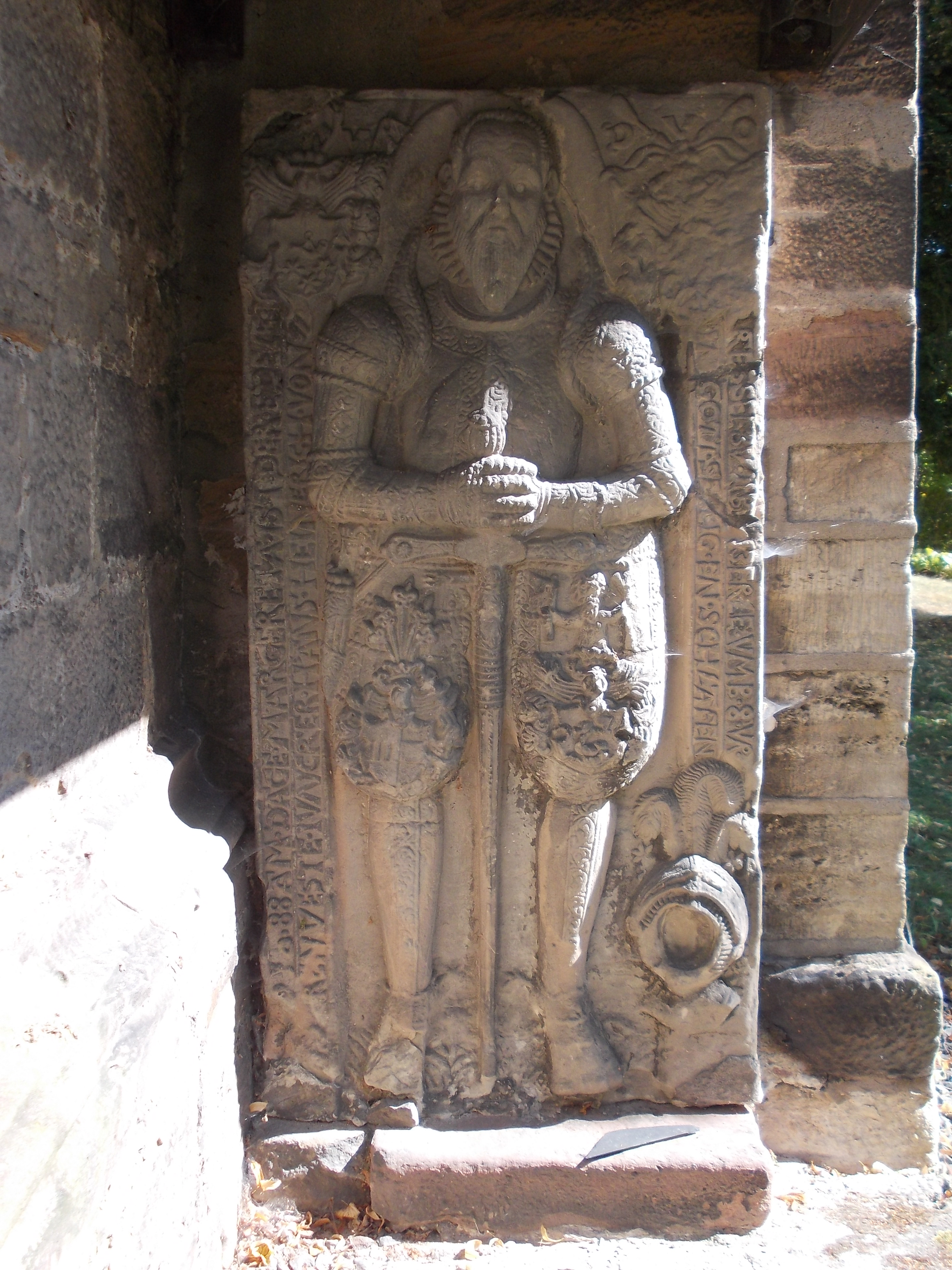 Epitaph of Heinrich von Kessel zu Winzerla St. Mary's Church in Orlamünde (district: Saale-Holzland-Kreis, Thuringia)